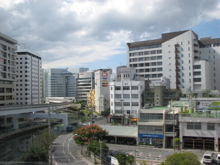 Downtown Naha, near Kencho-mae Station of Yui-rail.